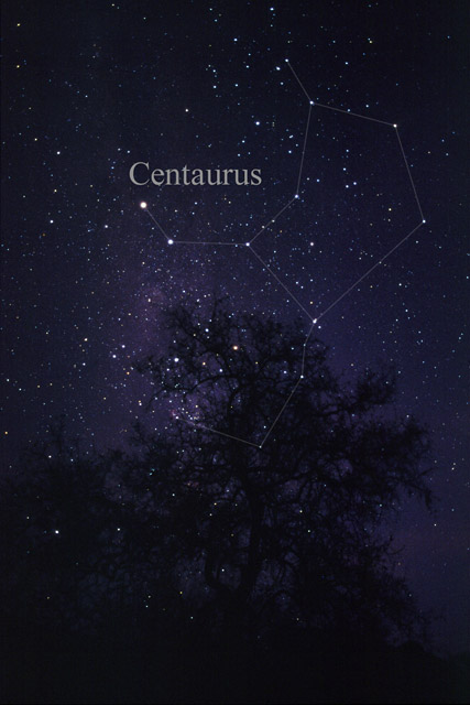 Photo of the constellation Centaurus, the Centaur